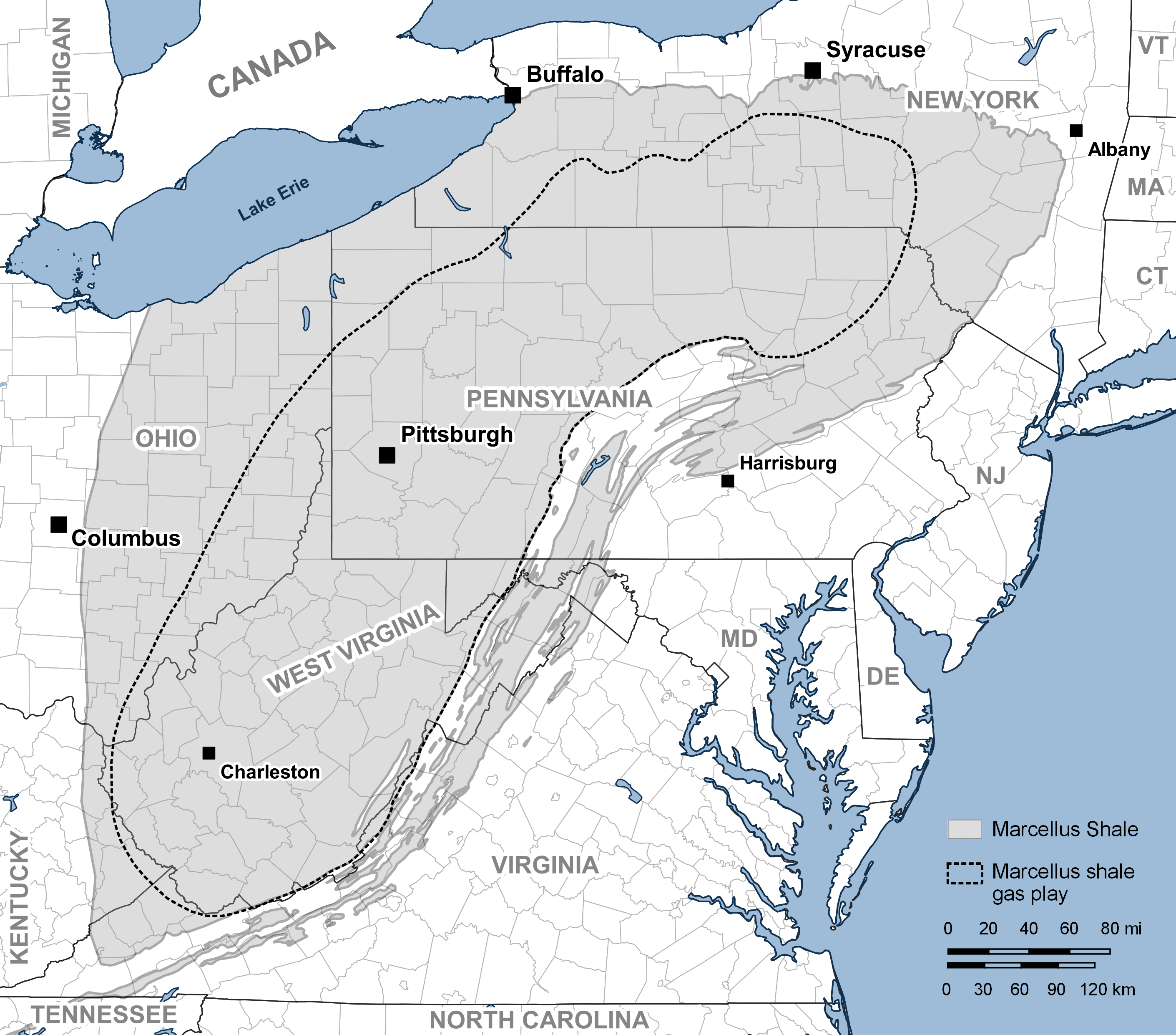 Geographic extent of the Marcellus Shale (outcrop and, mainly, subcrop) and its shale gas play in the northeastern U.S.